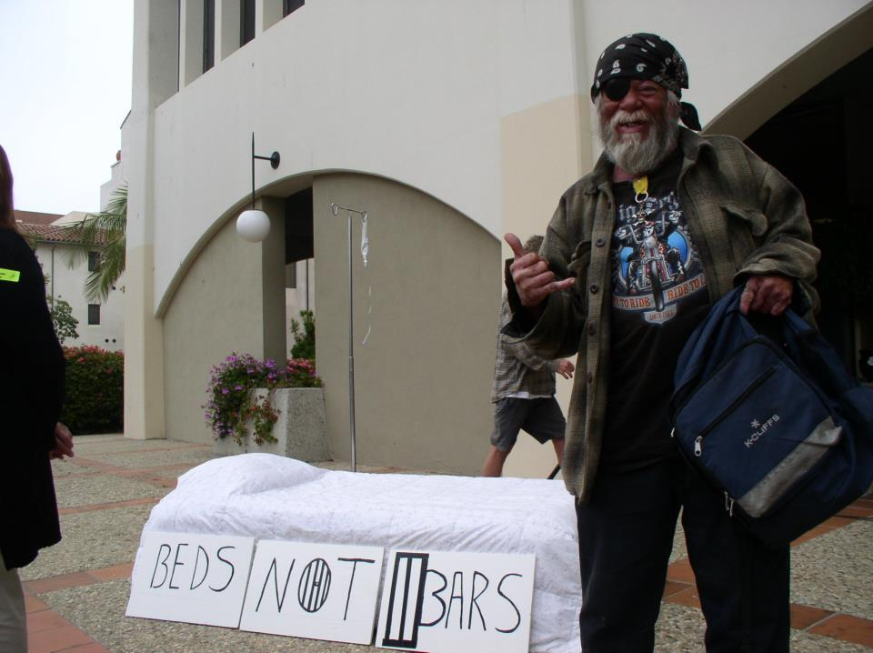 Beds Not Jails Families ACT! rally